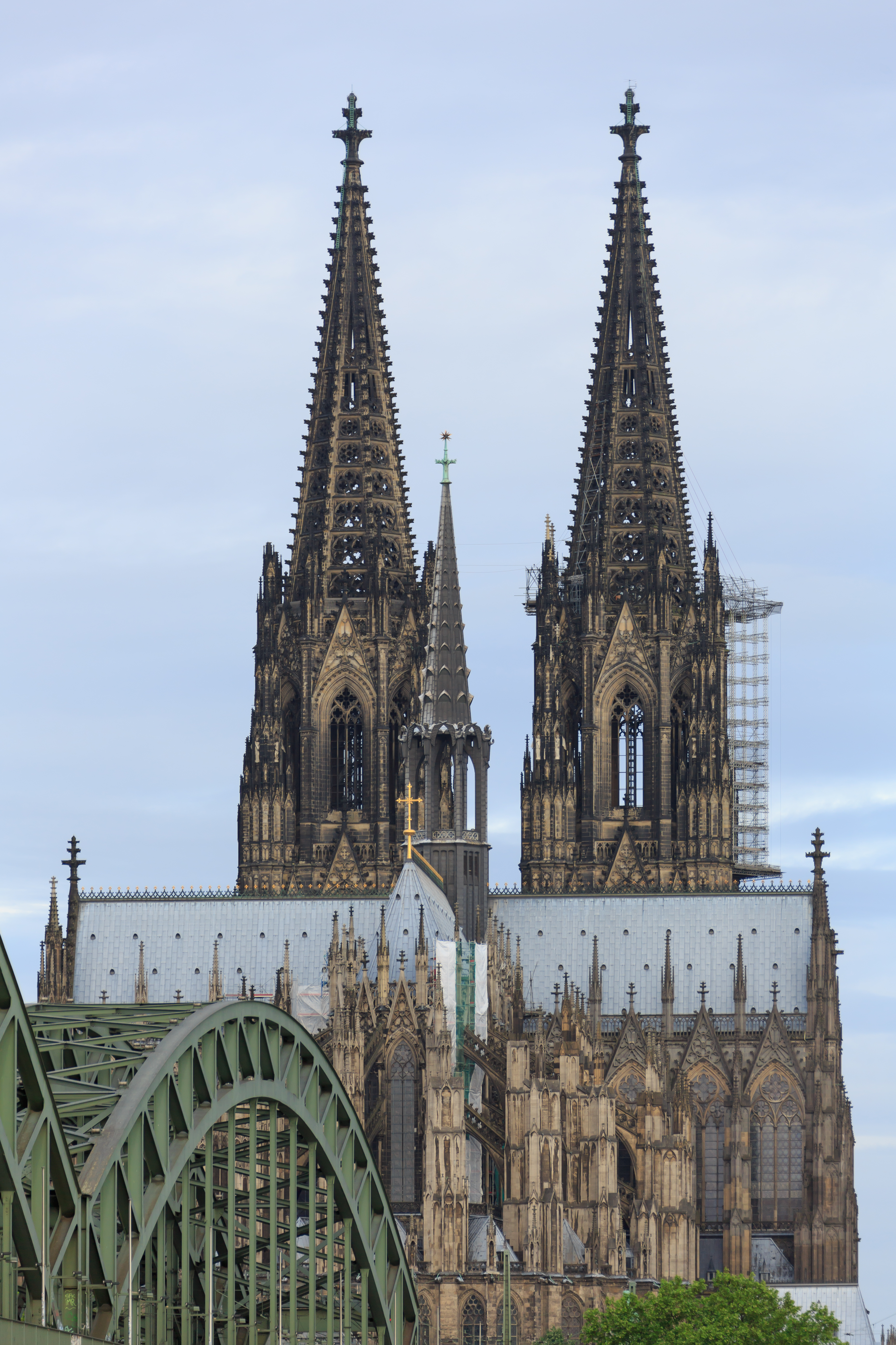 Cologne, Germany: Exterior of Cologne Cathedral